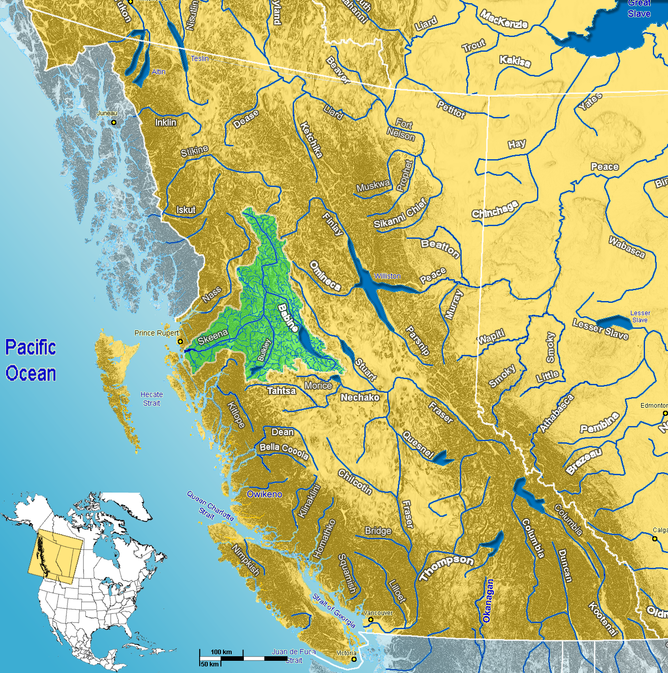 Watershed of Skeena River, British Columbia, Canada